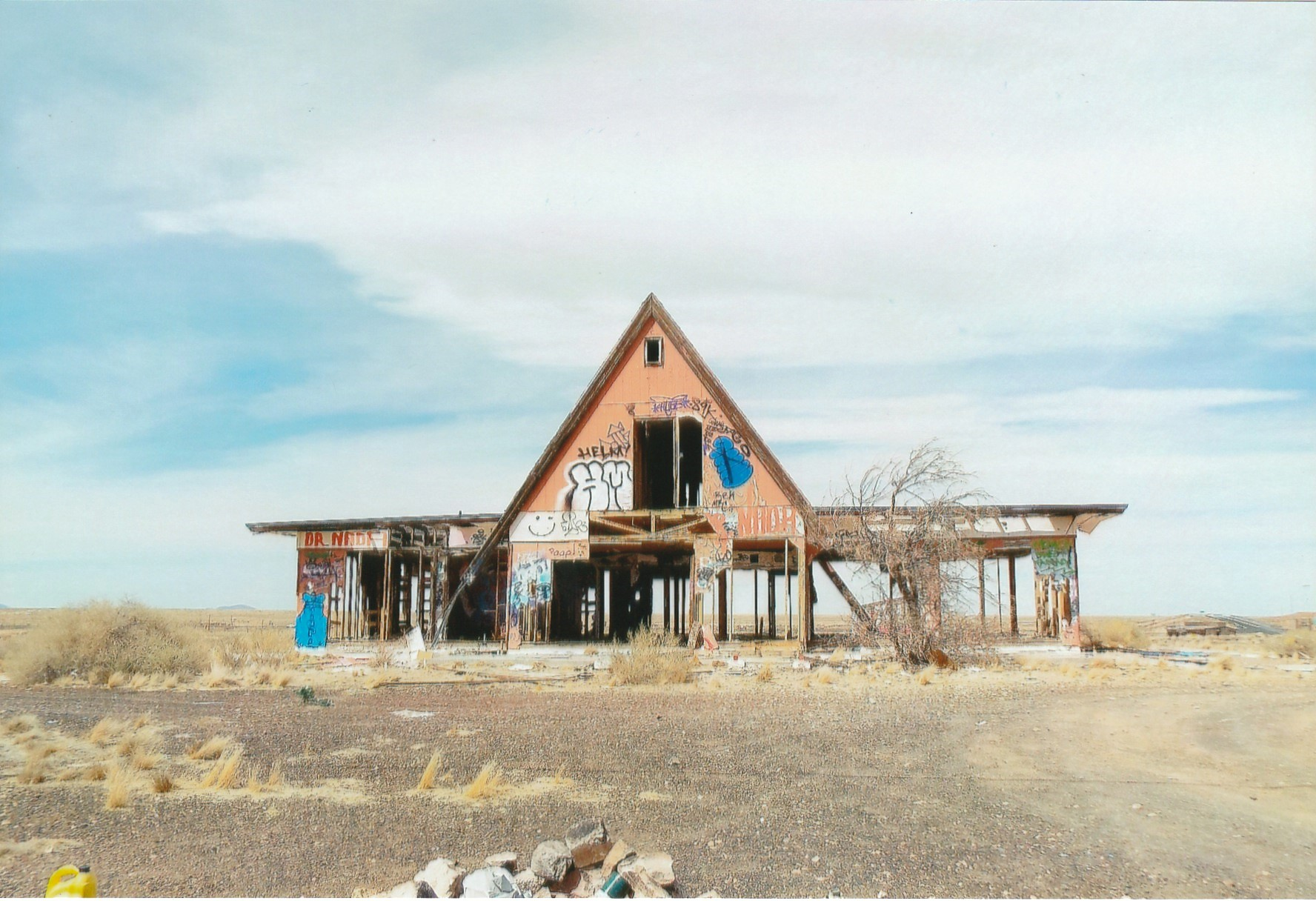 1960s Ruins in Two Guns, Arizona-Motel